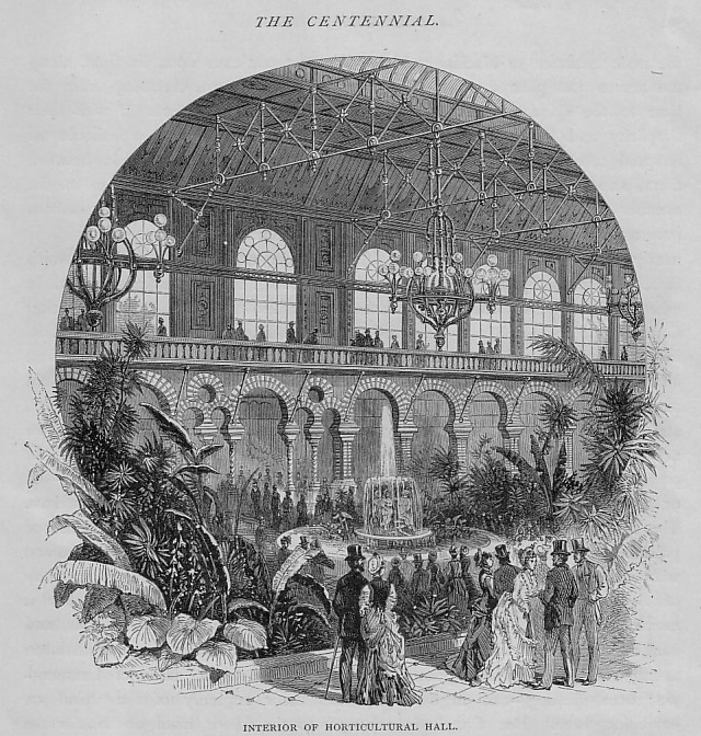 1875 - A Century After, picturesque glimpses of Philadelphia and Pennsylvania, edited by Edward Strahan, Published by Allen, Lane & Scott and J. W. Lauderbach, Philadelphia, Pennsylvania, 1875.